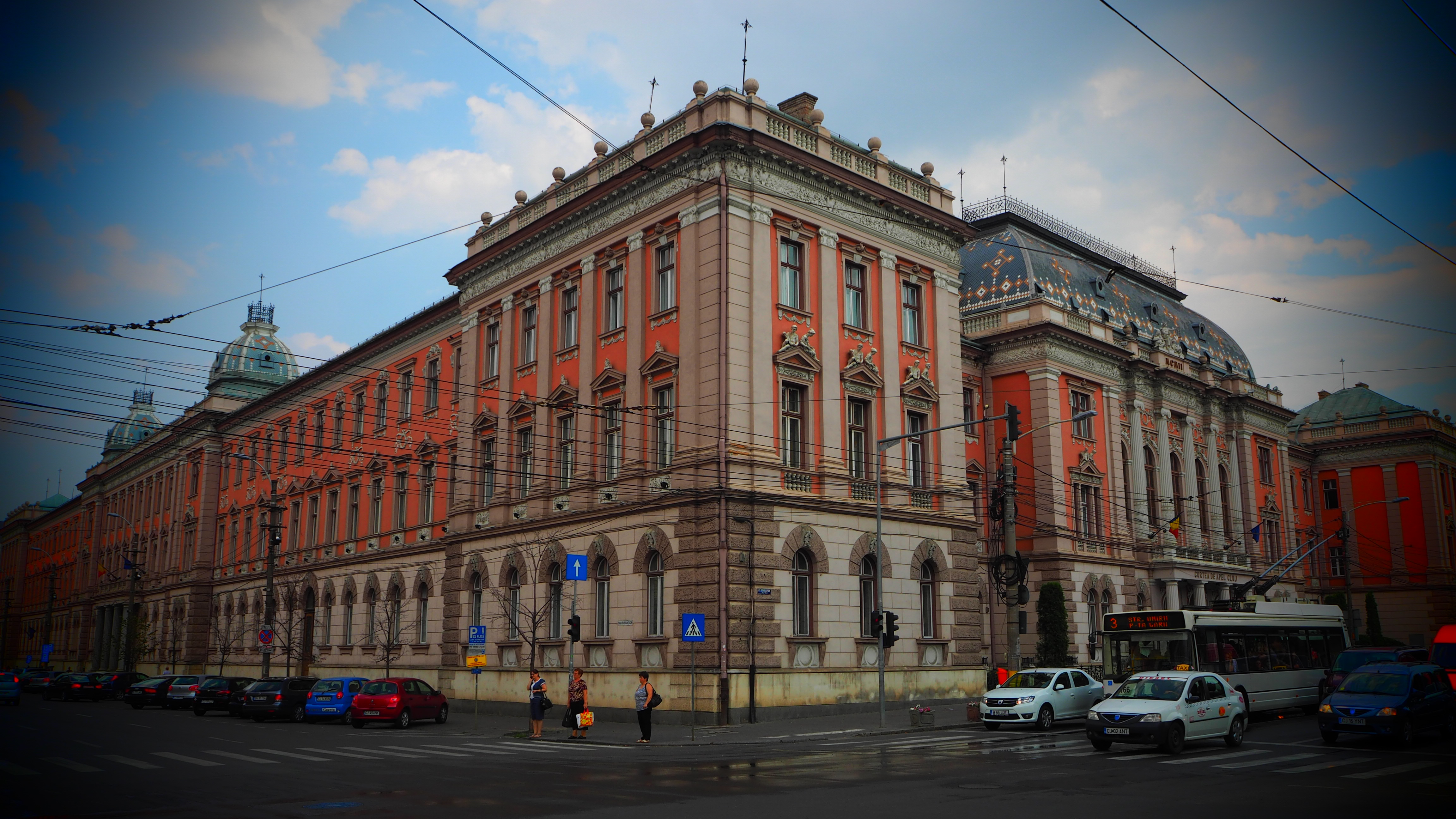 Palace of Justice, Cluj-Napoca, Romania